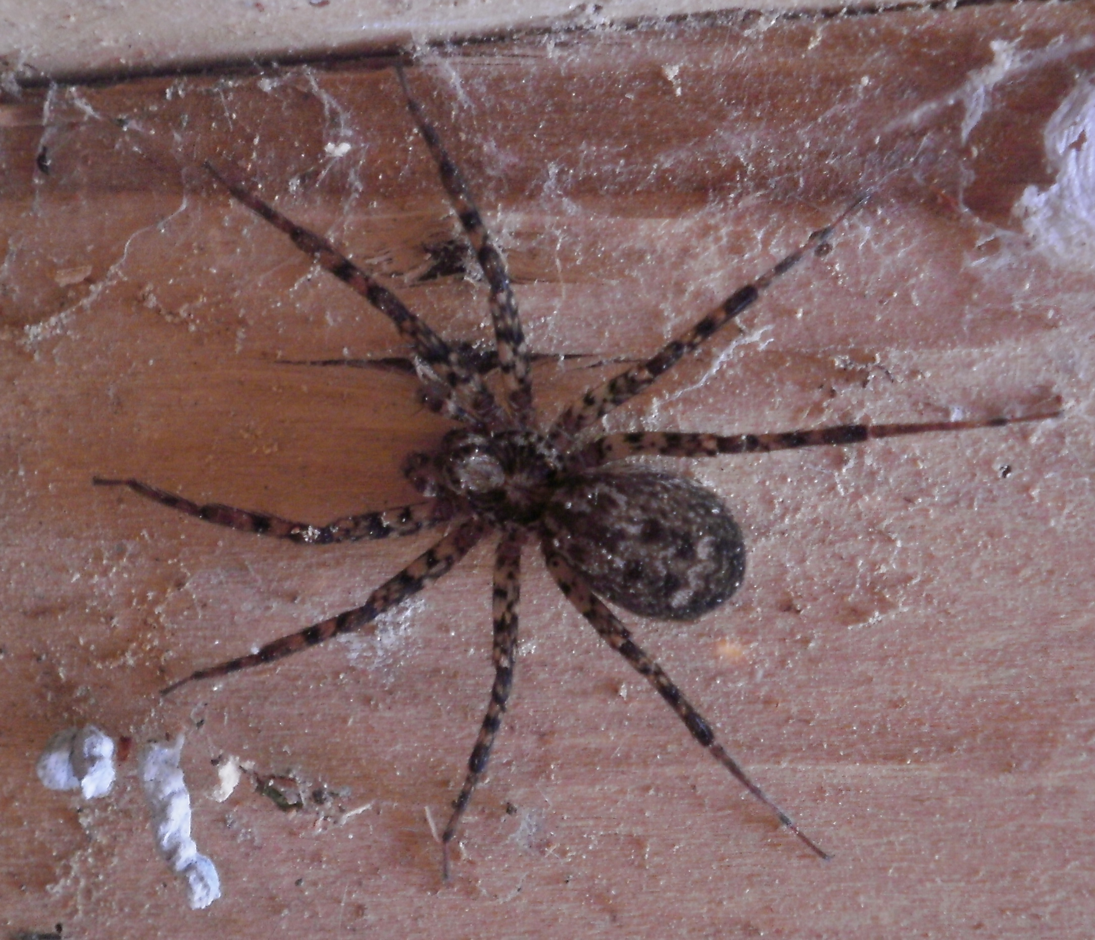 Stiphidion facetum (my best guess?), Sombrero spider, found in Upper Hutt, New Zealand.